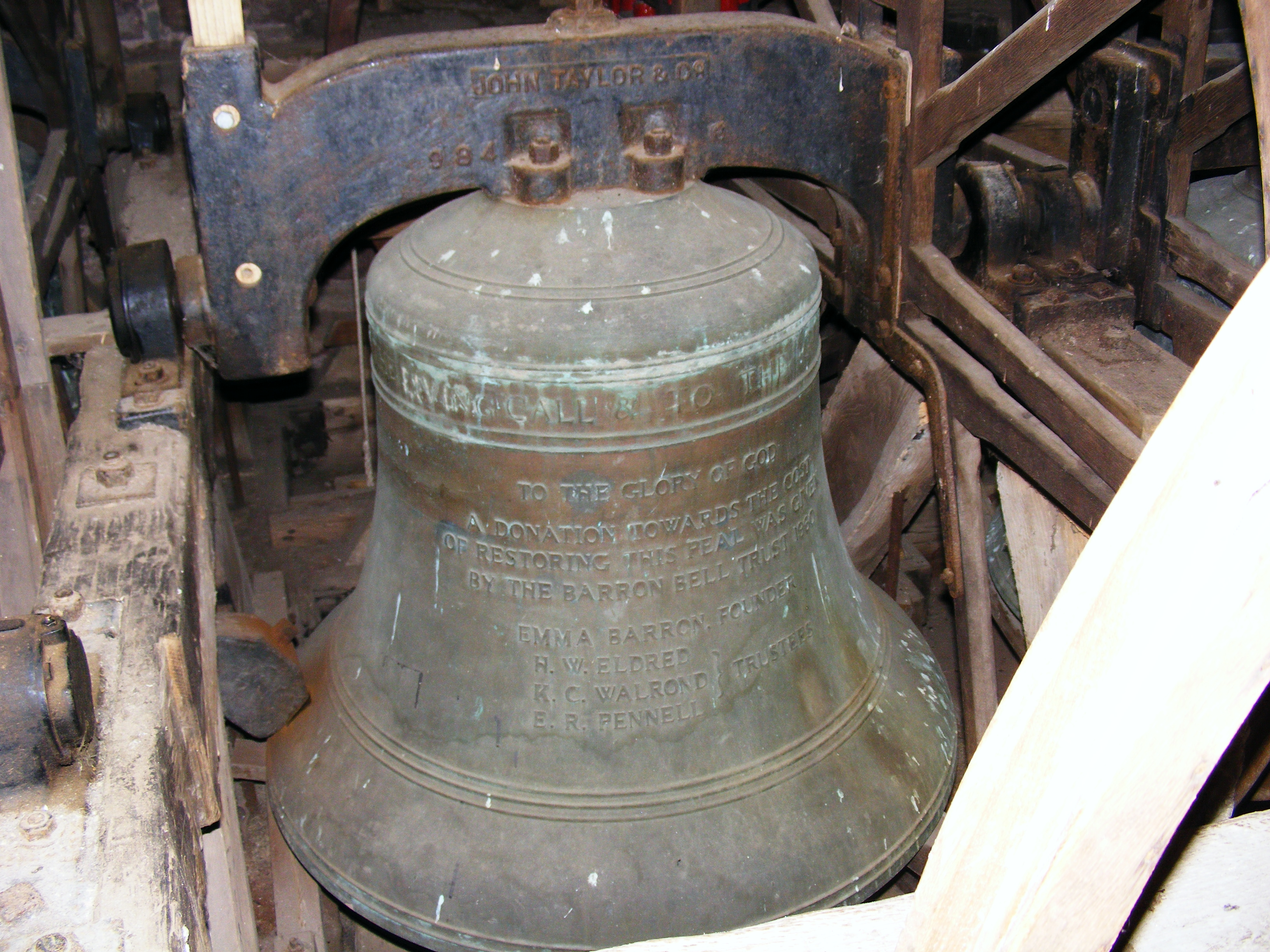 Tenor bell in the west tower of St Mary's parish church, Almeley, Herefordshire. John Taylor & Co cast and hung the tenor in 1960. The full inscription reads "I to church the living call & to grave I summon all".